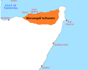 The Warsangali Sultanate